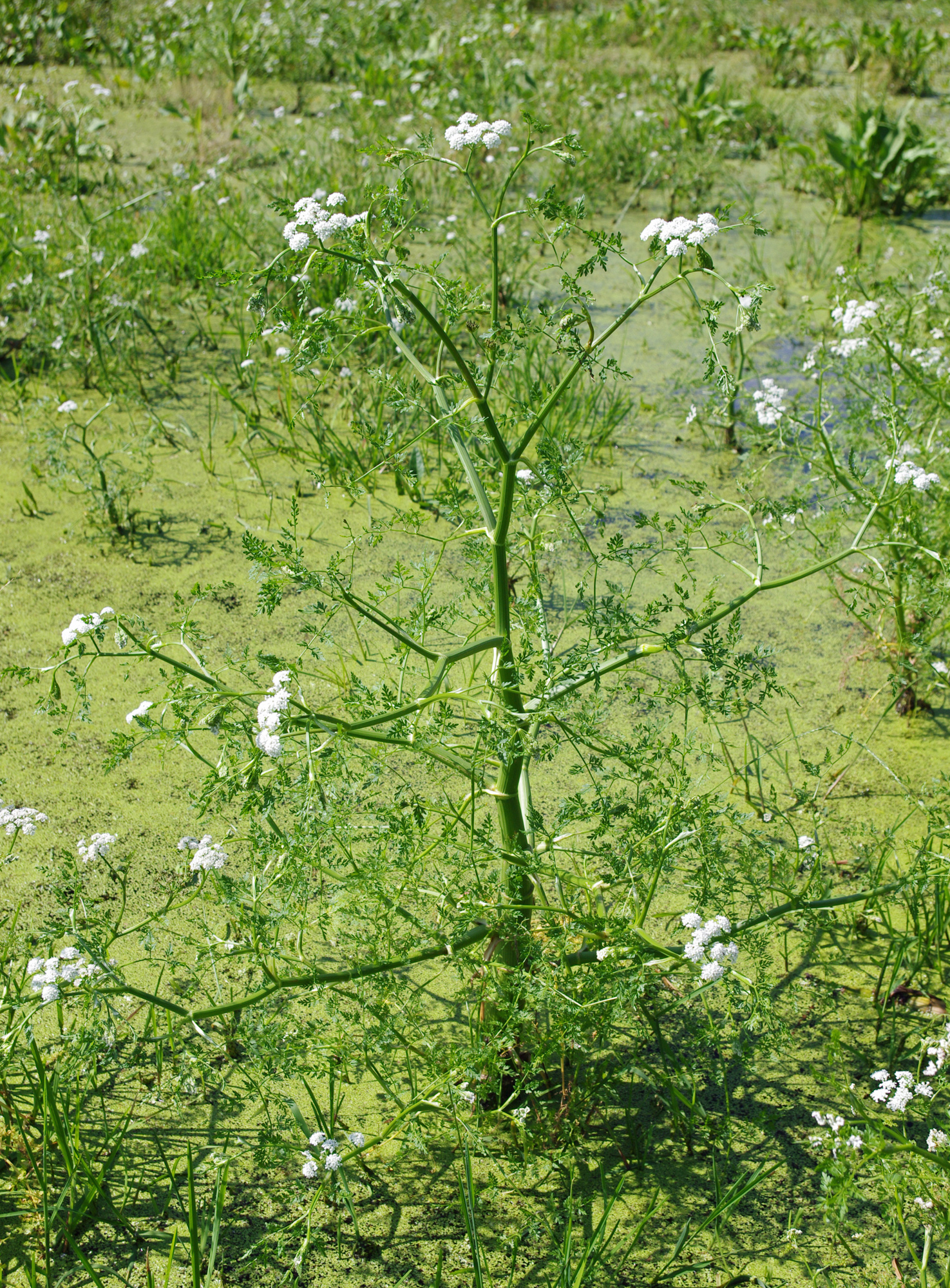 Flowering plant of Oenanthe aquatica in a pond.